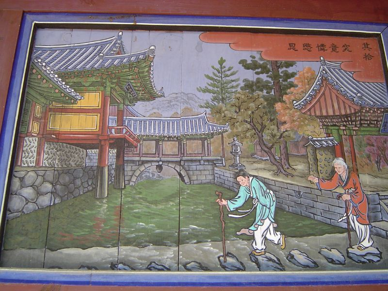 Wall painting in buildings of Songgwangsa, one of the most important Seon Buddhist monasteries in Korea and located in Jogyesan in Songgwang-myeon, Suncheon, Jeollanam-do, South Korea. This picture were taken in May 2004. Lanterns decorating for celebrating Buddha's birthday.